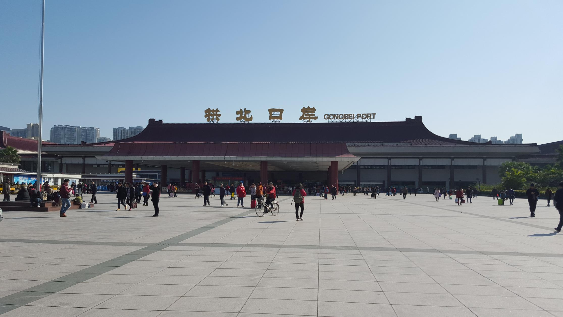 Gongbei Port of Entry, Zhuhai, China